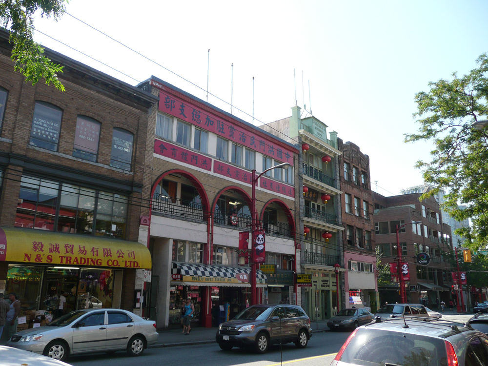 Buildings along East Pender Street in Vancouver's Chinatown.